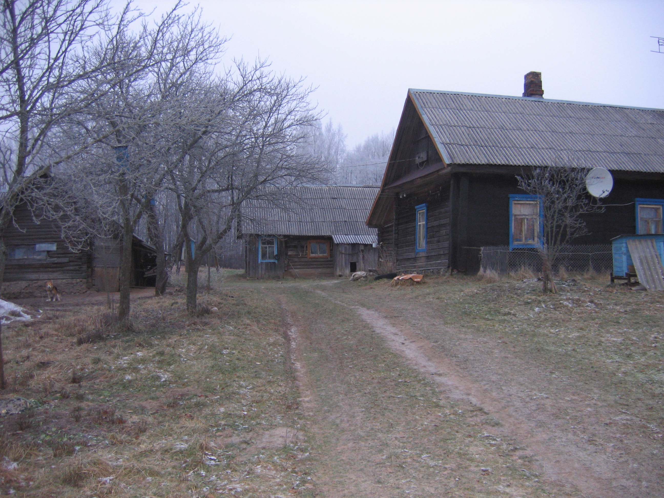 Ruleva